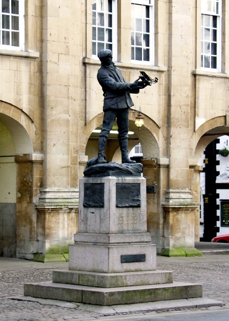 Statue of Charles Rolls The first ever aviator killed in an aeroplane crash